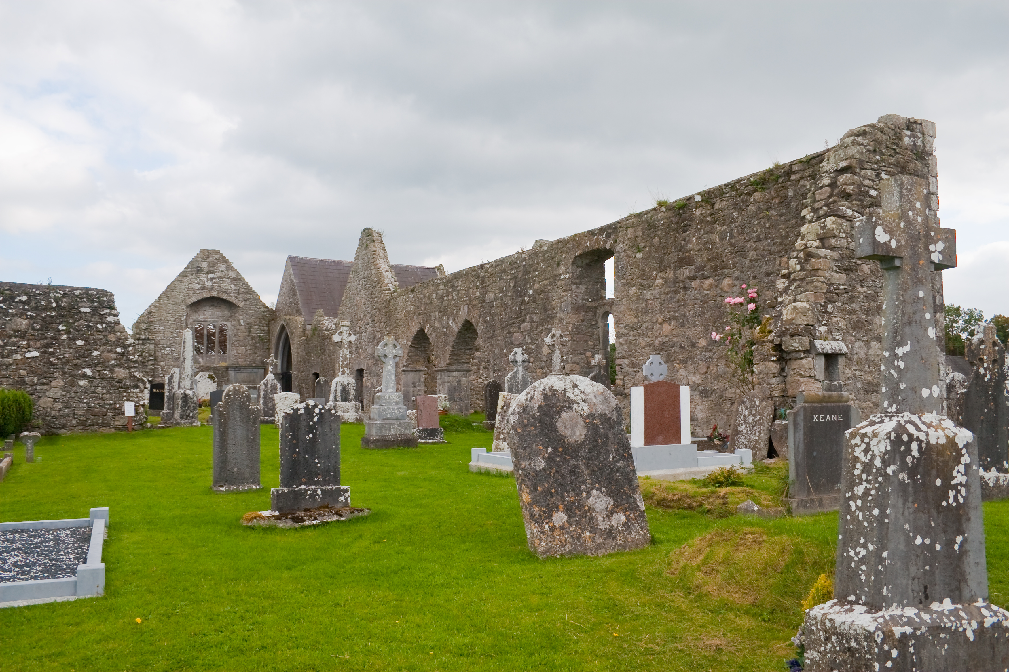 Kinalehin Friary, County Galway, Ireland Nave and choir of Kinalehin Friary, looking south-east.